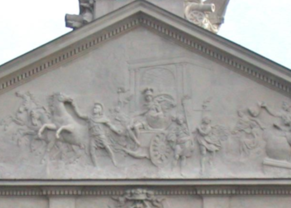 Pediment reliefs of the Krasiński Palace in Warsaw, showing Marcus Valerius Messalla Corvinus in Roman triumph, by Andreas Schlüter. Detail (the pediment) of Image:VarsaviaPalazzoKrasinskiPart.jpg full resolution, by User:MM and tagged with the same PD-self license.